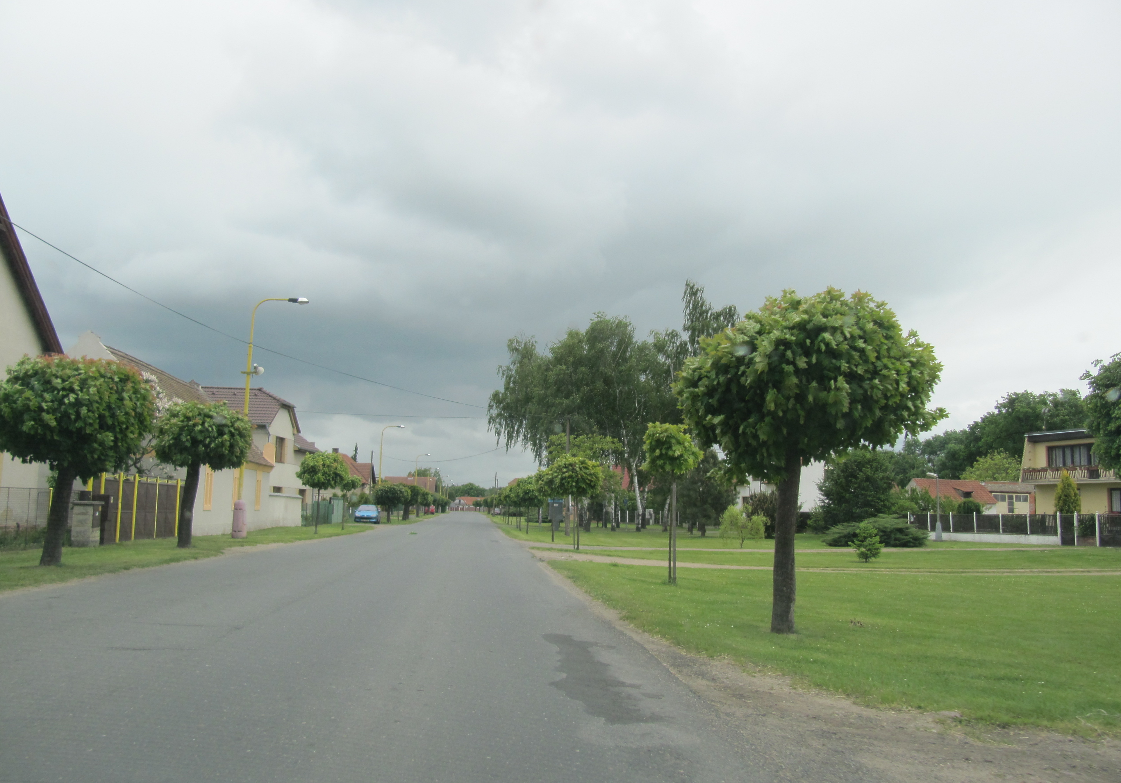 Rohozec, Kutná Hora District, Czech Republic. Village green.